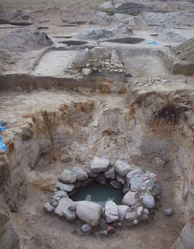 Rescue excavations, where Highway A2 is planned to be built, near Bolimów, Poland. See also: Olimpijka.